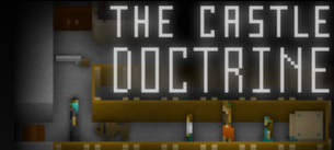 Logo from The Castle Doctrine. Taken from its Steam store page. The game's author, Jason Rohrer, confirmed by email that the art assets (logos, etc.) are indeed under the same PD license (ticket:2016120910025281) as the game.